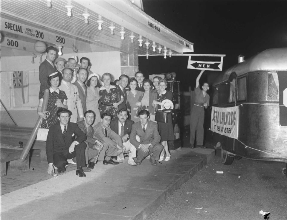 Artists group of radio station CKAC in Montreal posing with lead singer Jean Lalonde (second row, third from the left), during an outing. A trailer carrying a banner with the inscription "Jean Lalonde and its artists".